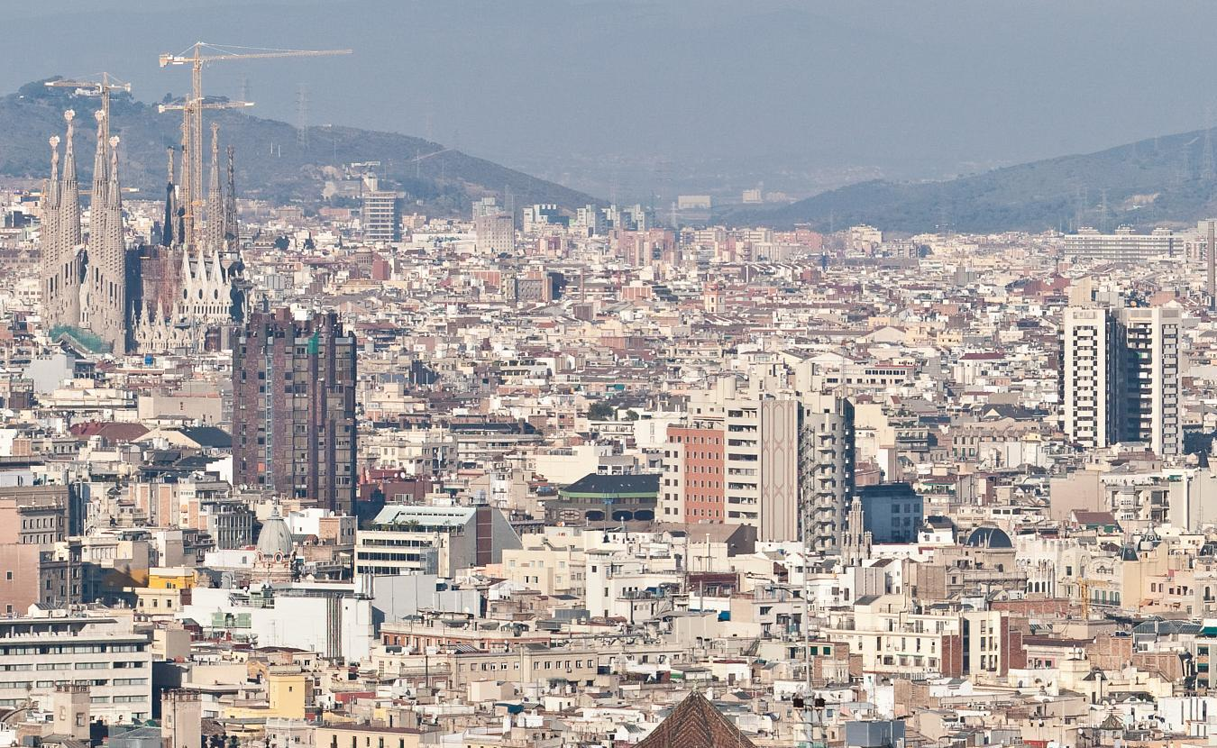 A panorama of the city of Barcelona from Montjuïc. Taken with a Canon 5D and 70-200mm f/2.8L lens.